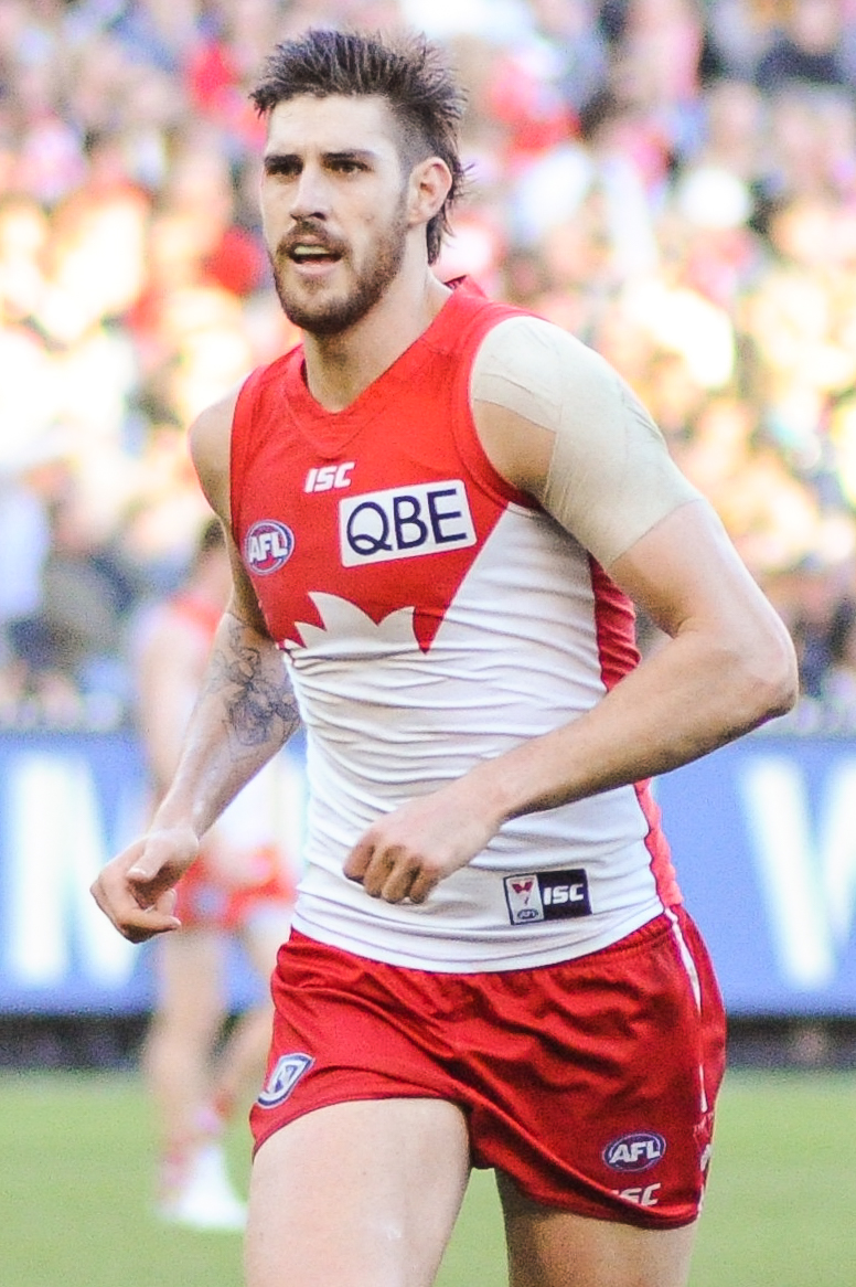 Sam Naismith during the AFL round thirteen match between Richmond and Sydney on 17 June 2017 at the Melbourne Cricket Ground in Melbourne, Victoria.